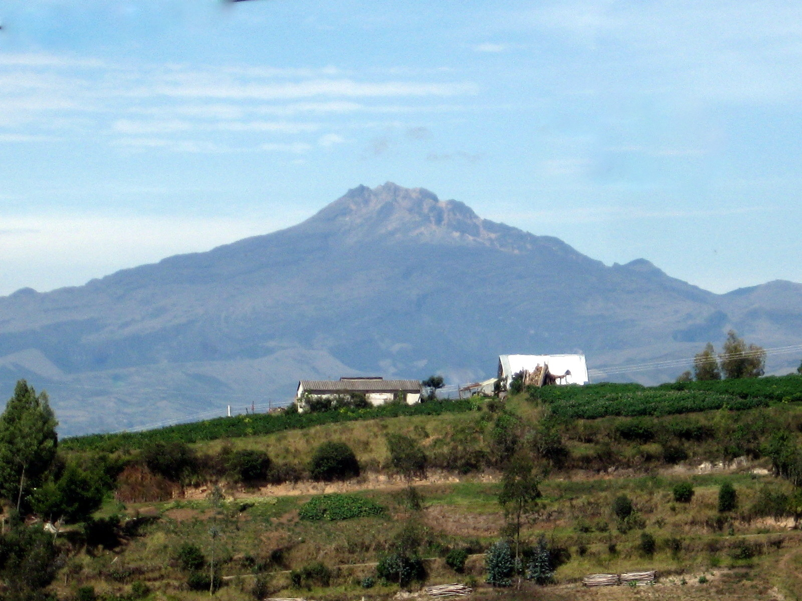 Nevado de Chiles, Colombia